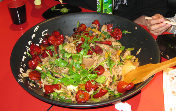 ethnic food in wuhai